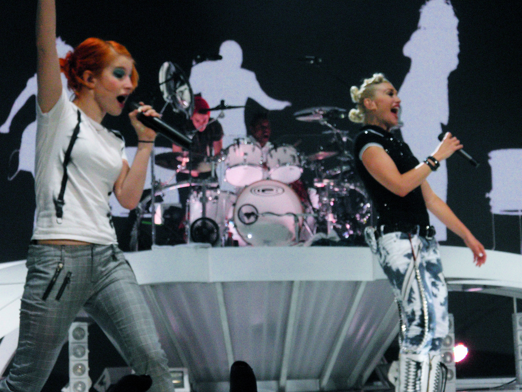 Paramore and No Doubt performing during the Summer Tour 2009 in General Motors Place in Vancouver.